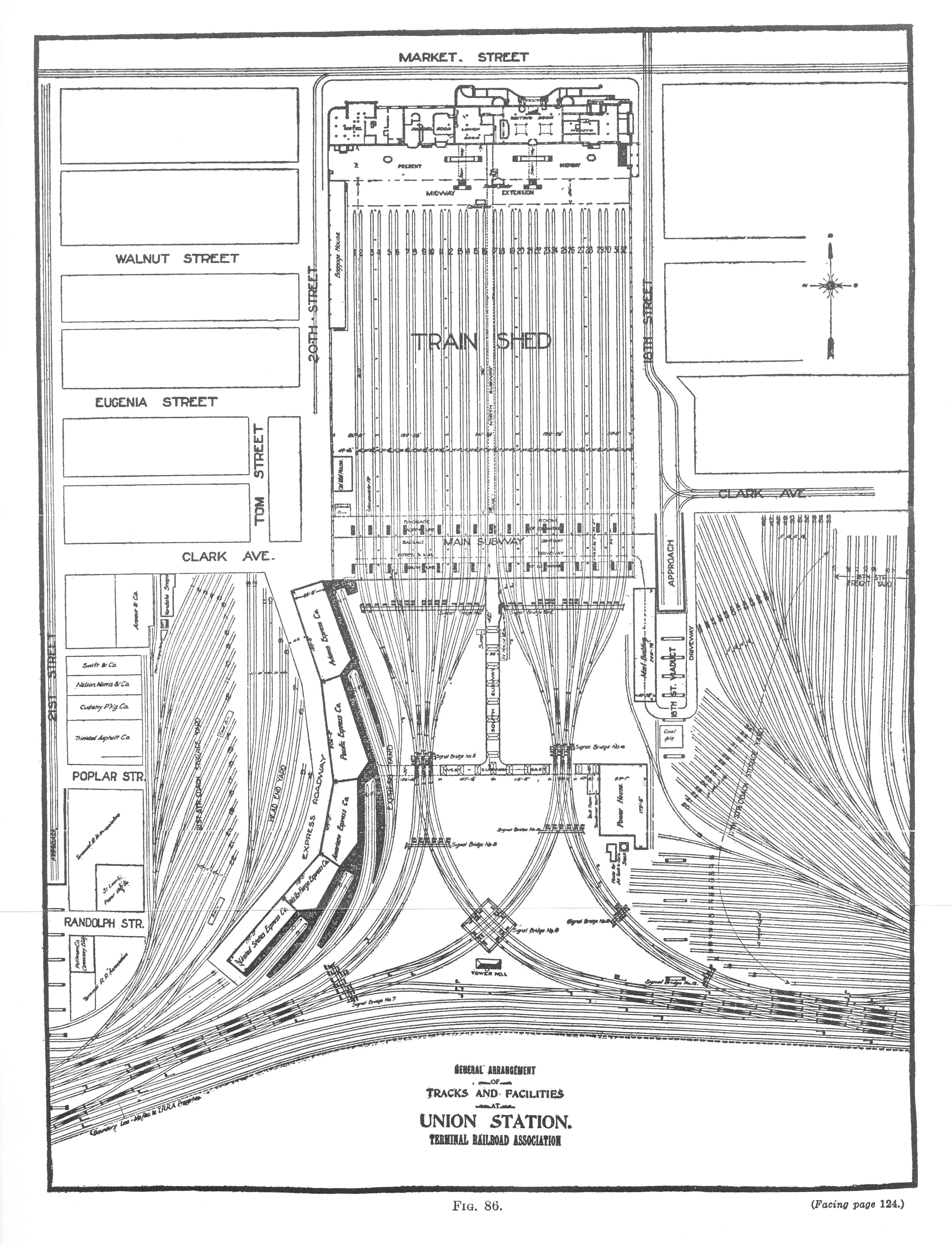 Diagram of original buildings and tracks at Union Station, 1820 Market Street, St. Louis, Missouri.